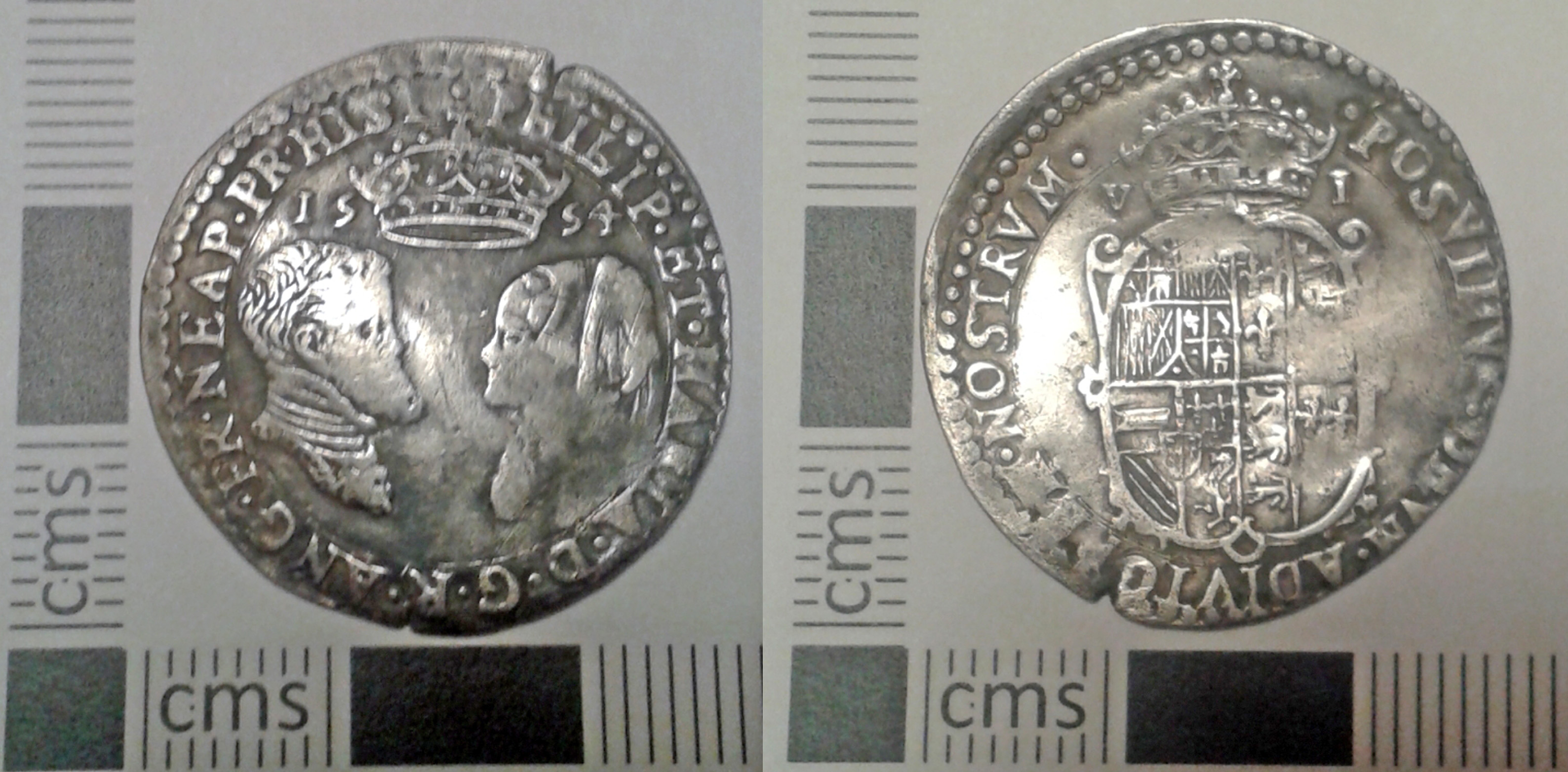 Post Medieval coin: Sixpence of Phillip and Mary